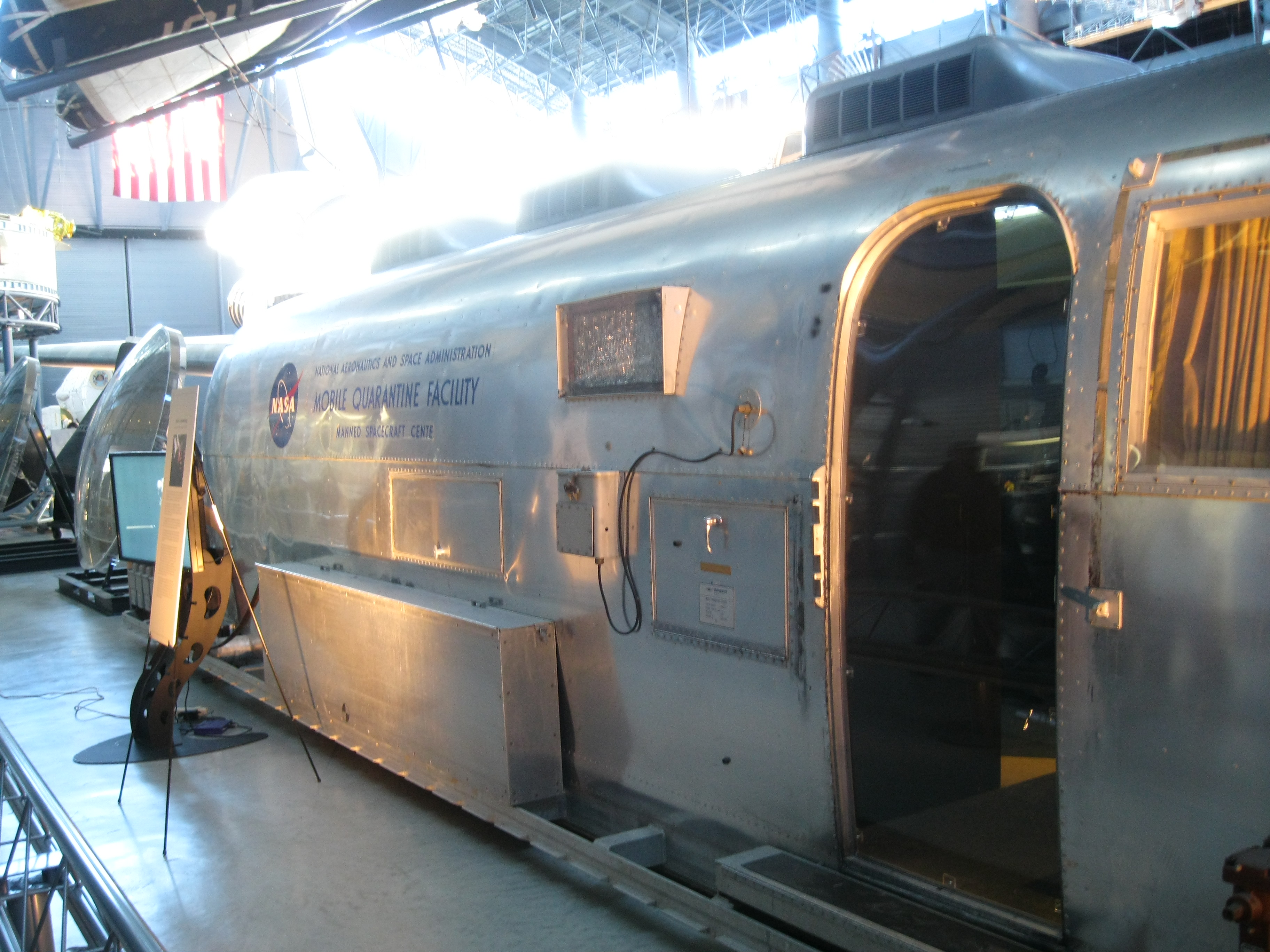 Mobile Quarantine Facility used by NASA for the Apollo 11 astronauts on their return from the moon in 1969, now on display in the Mational Air and Space Museum's Udvar-Hazy Center